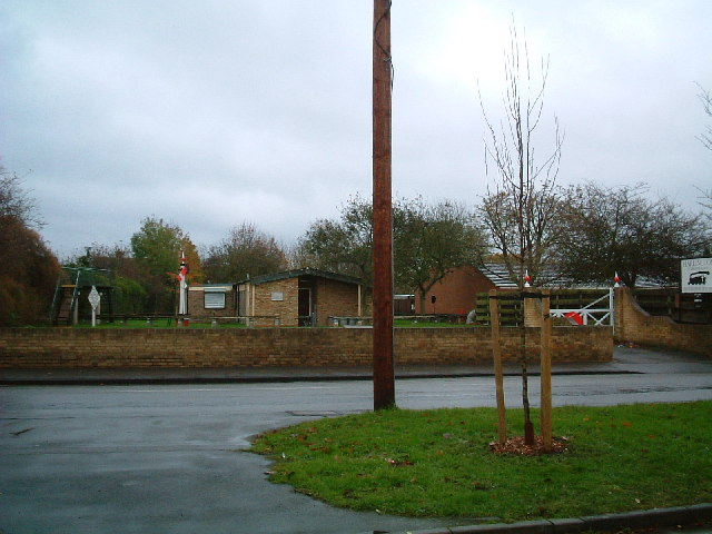 Harlington Locomotive Society. A sit-on railway runs around the grounds on open days. For information and more pictures